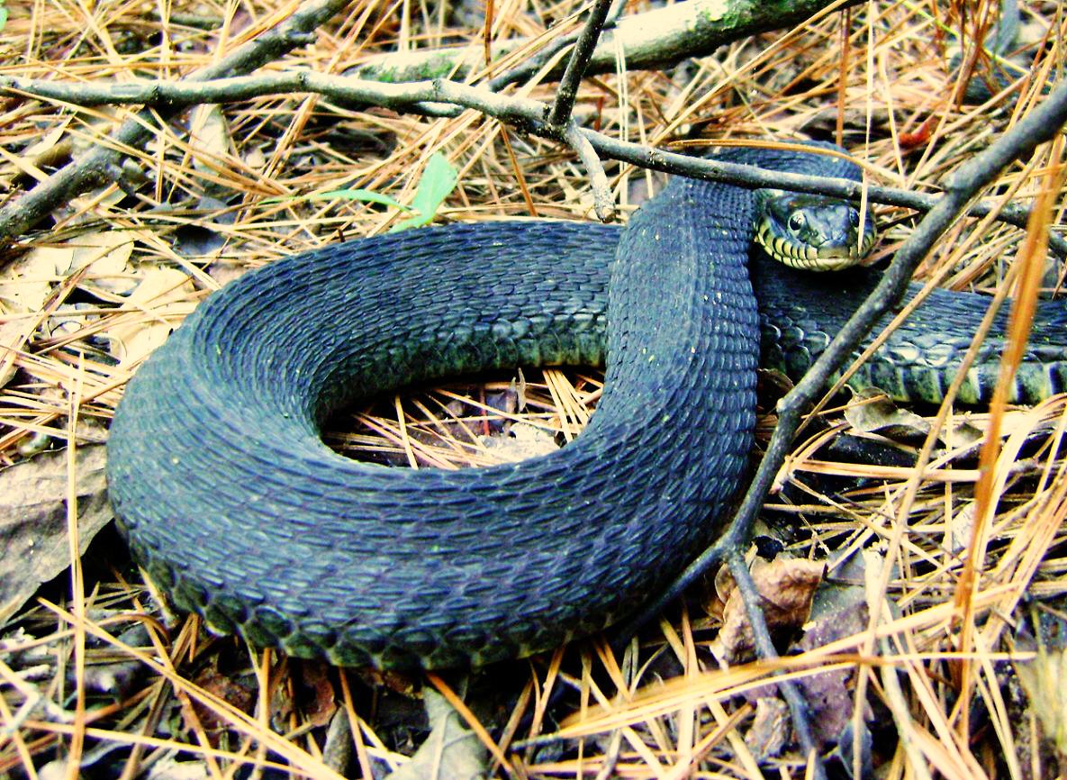 Nerodia erythrogaster flavigaster - On Saturday, for the first time in ages, I neglected to grab the camera on the way out the door for my walk in JJP. Beside one of the trails I saw a beautiful Western Cottonmouth Water Moccasin. Needless to say, I was disappointed. Today, this Yellowbelly Water Snake, near another trail, was some consolation.